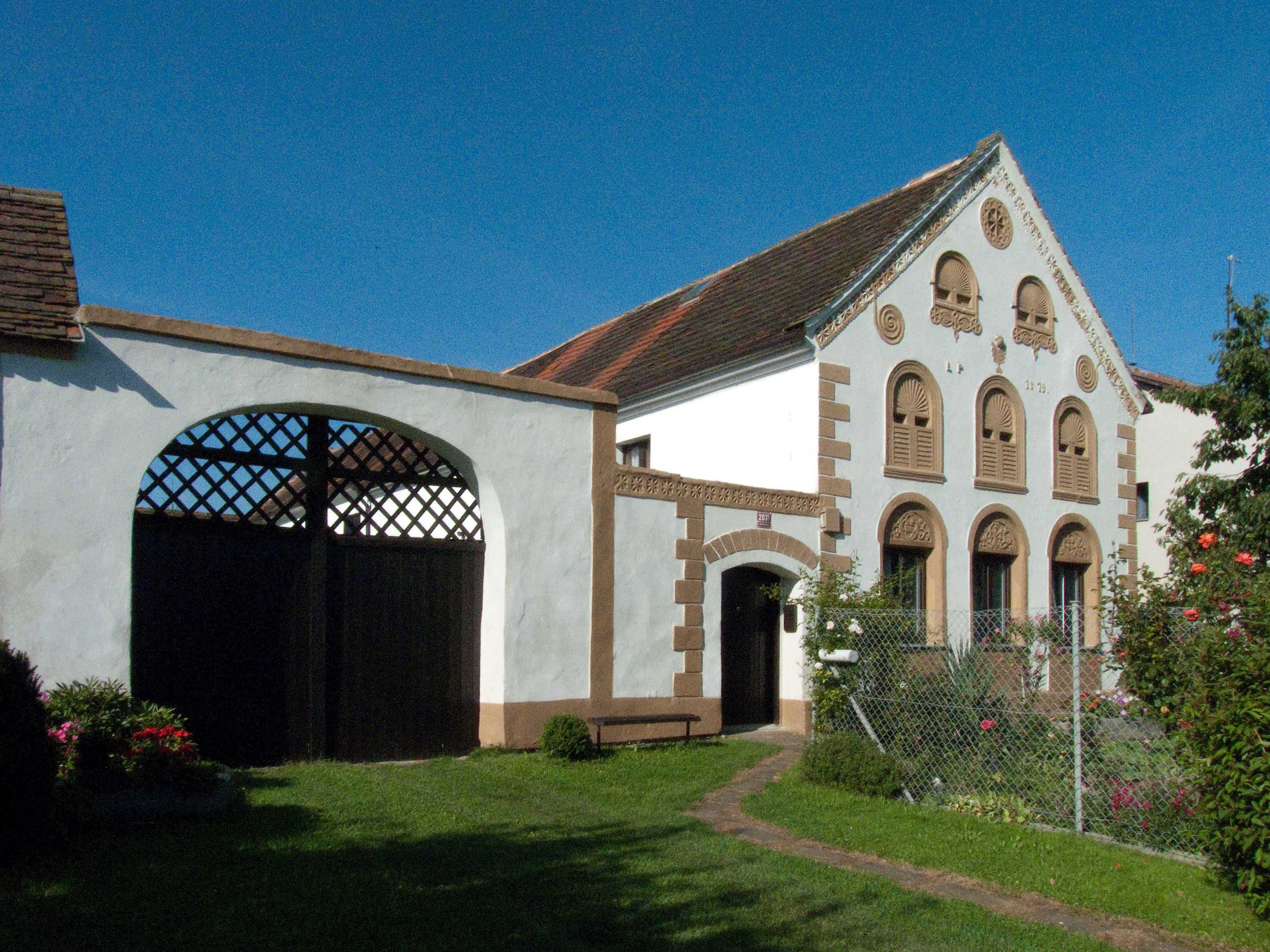 Cottage No 2031 in Haklovy Dvory, České Budějovice district, Czech Republic dated 1879